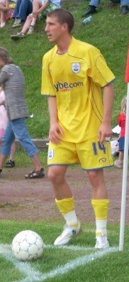 Grégory Vignal in Summer 2007 in a pre-season game for Southampton versus a Norwegian local team called Svarstad Idrettslag on their homeground.